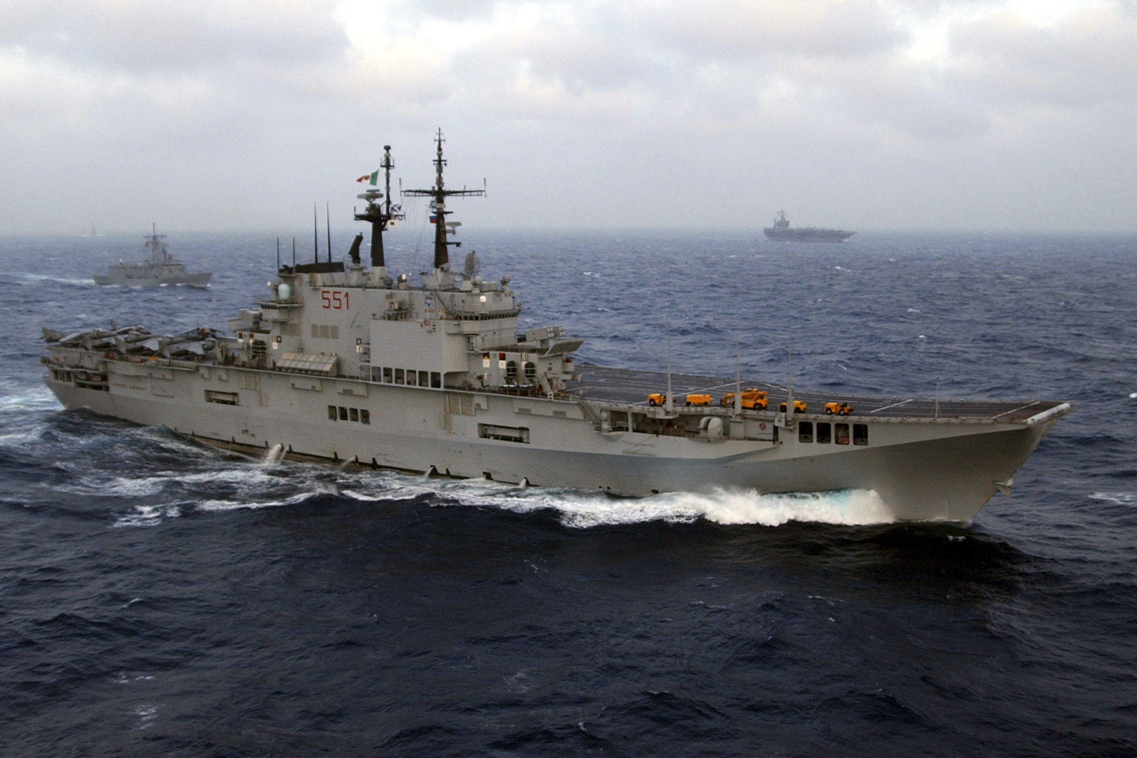 Starboard side view of the Italian Navy, GARIBALDI CLASS: Aircraft Carrier, GIUSEPPE GARIBALDI (C 551), underway in heavy seas in the Atlantic Ocean, while participating in Exercise MAJESTIC EAGLE 2004. The Turkish Navy, OLIVER HAZARD PERRY CLASS: Frigate, GEDIZ (F 495) ex-FFG 19 (background left), and the US Navy (USN) NIMITZ CLASS: Aircraft Carrier, USS HARRY S. TRUMAN (CVN 75), are also pictured. The exercise demonstrates the combined force capabilities and quick response times of the participating naval, air, undersea and surface warfare groups.